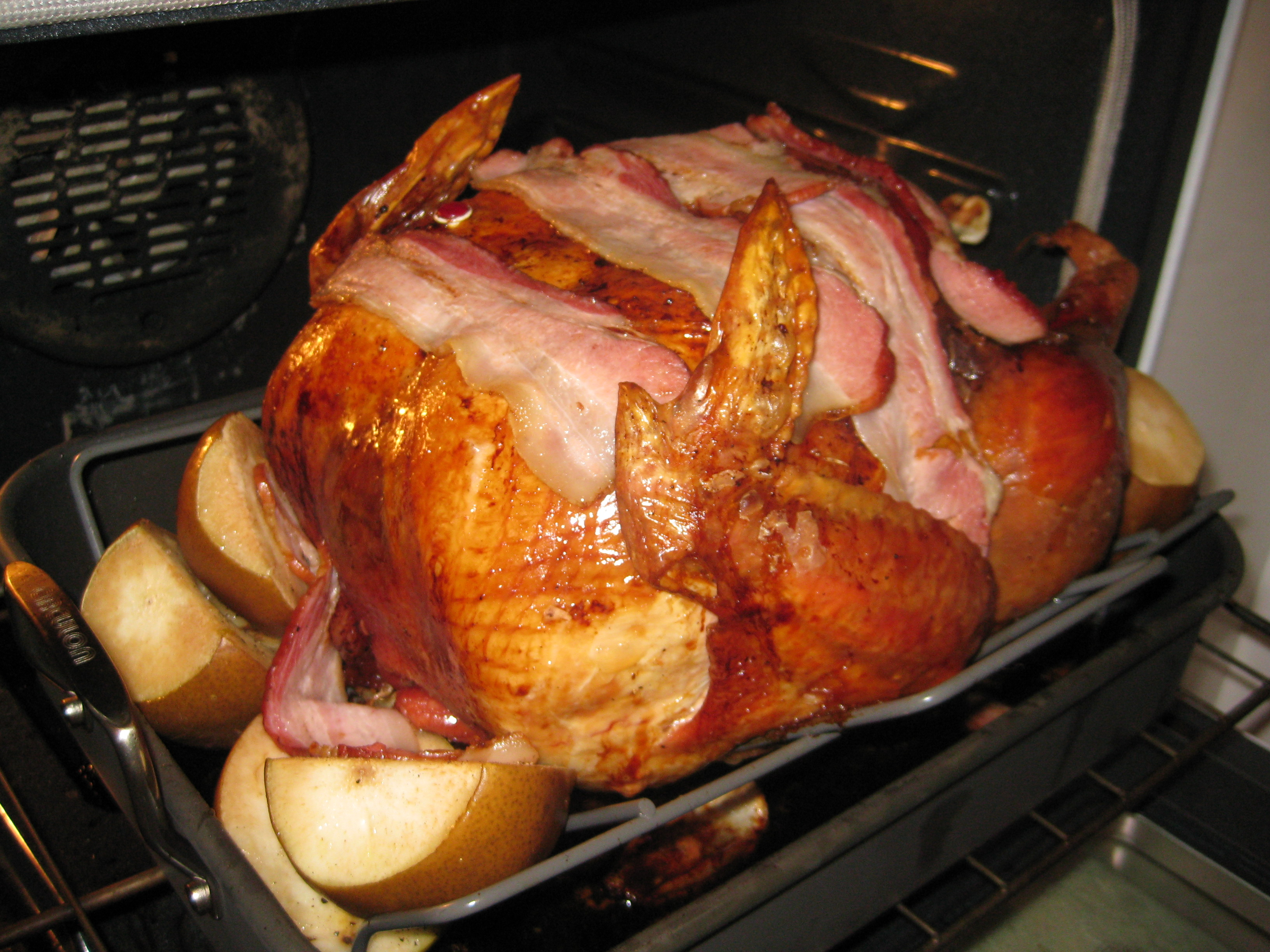 Roast turkey wrapped in bacon